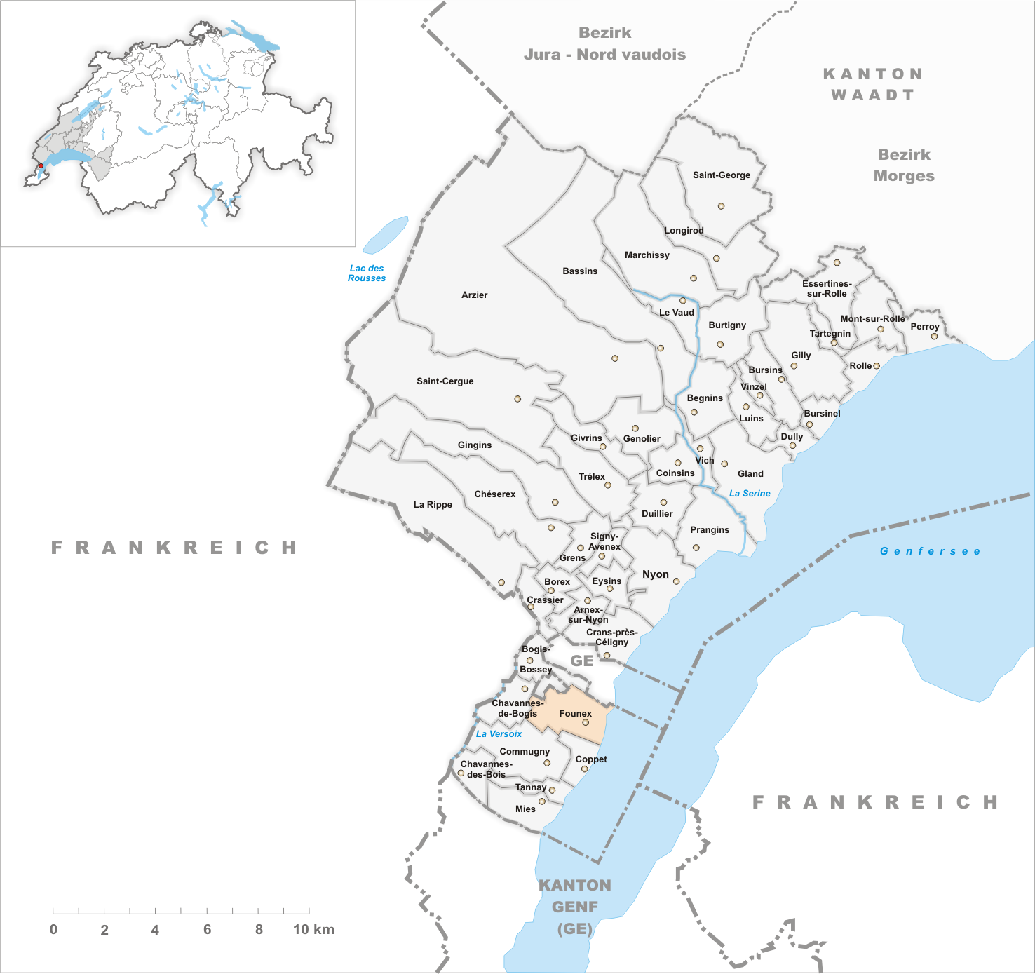 Municipality Founex